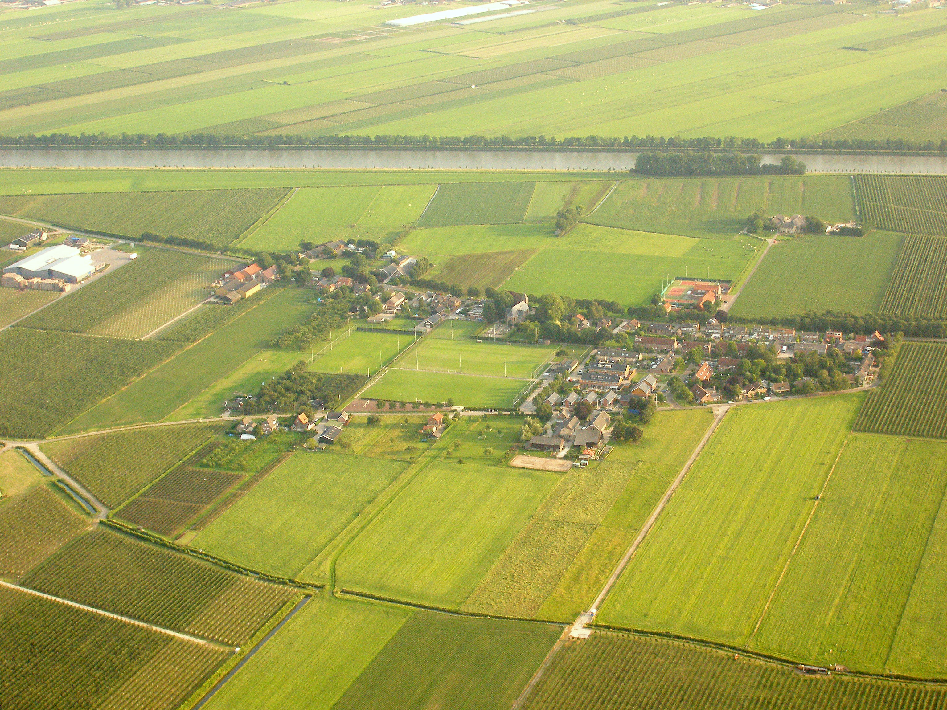 The village 't Goy (the Netherlands).